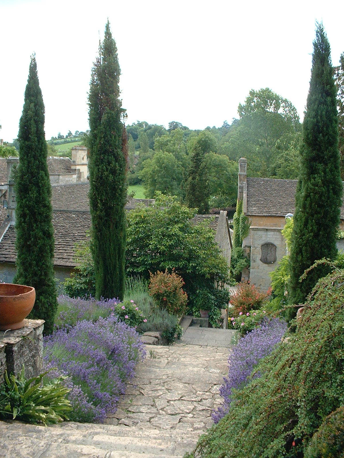 The Peto gardens, Iford Manor, Wiltshire Photo by user